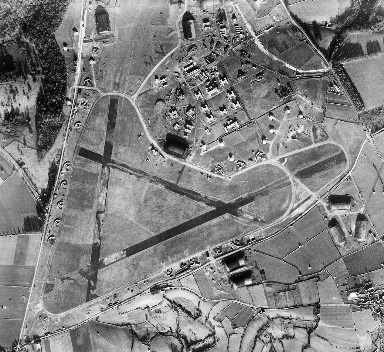 Aerial photograph of Colerne Airfield looking north, the technical site and barracks are upper right, 4 December 1943. Photograph taken by 7th Photographic Reconnaissance Group, sortie number US/7PH/GP/LOC94. English Heritage (USAAF Photography).